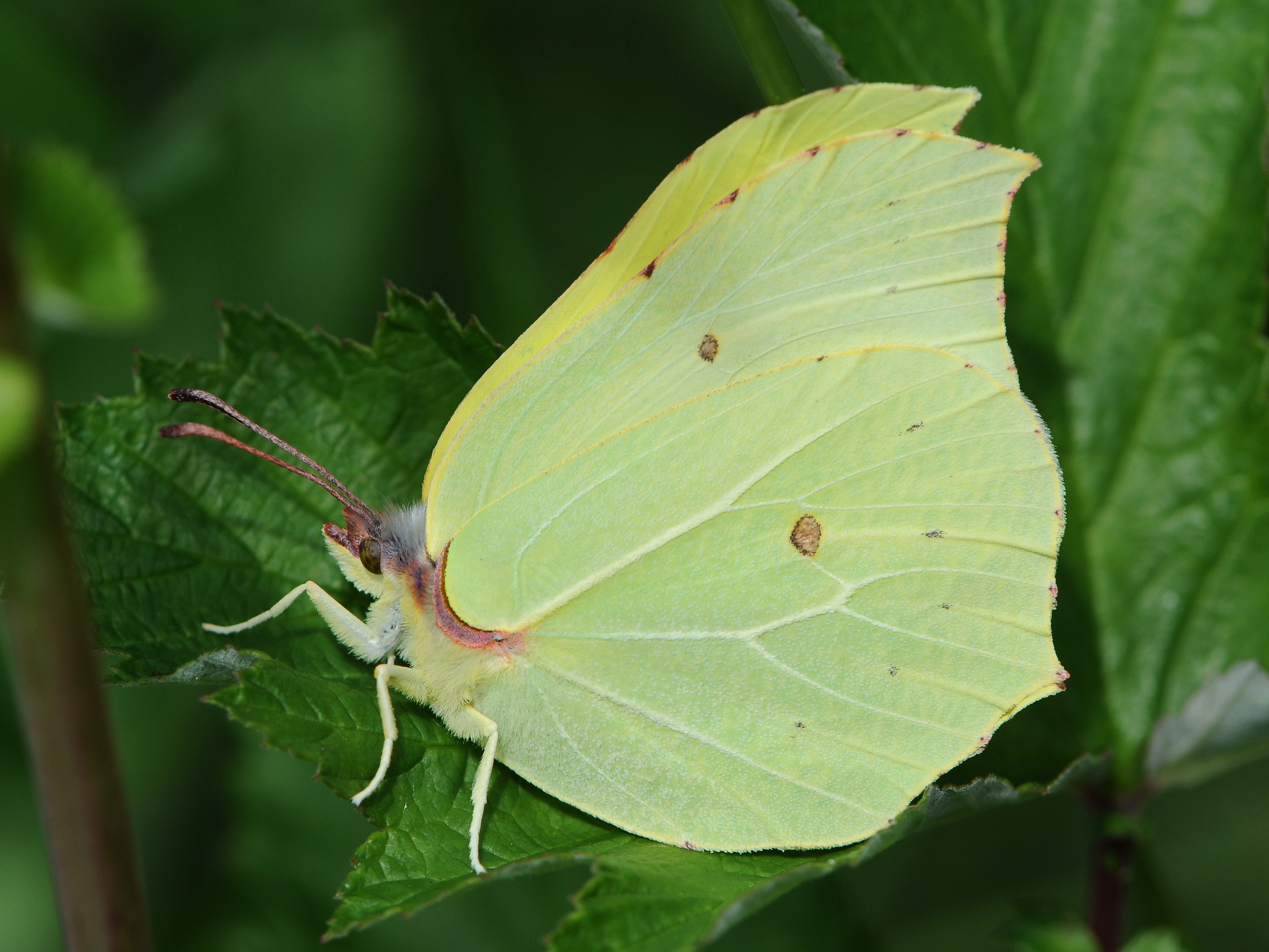 The Common Brimstone (Gonepteryx rhamni) is a butterfly of the Pieridae family. It lives in Europe, North Africa and Asia; across much of its range, it is the only species of its genus, and is therefore simply known locally as the brimstone.